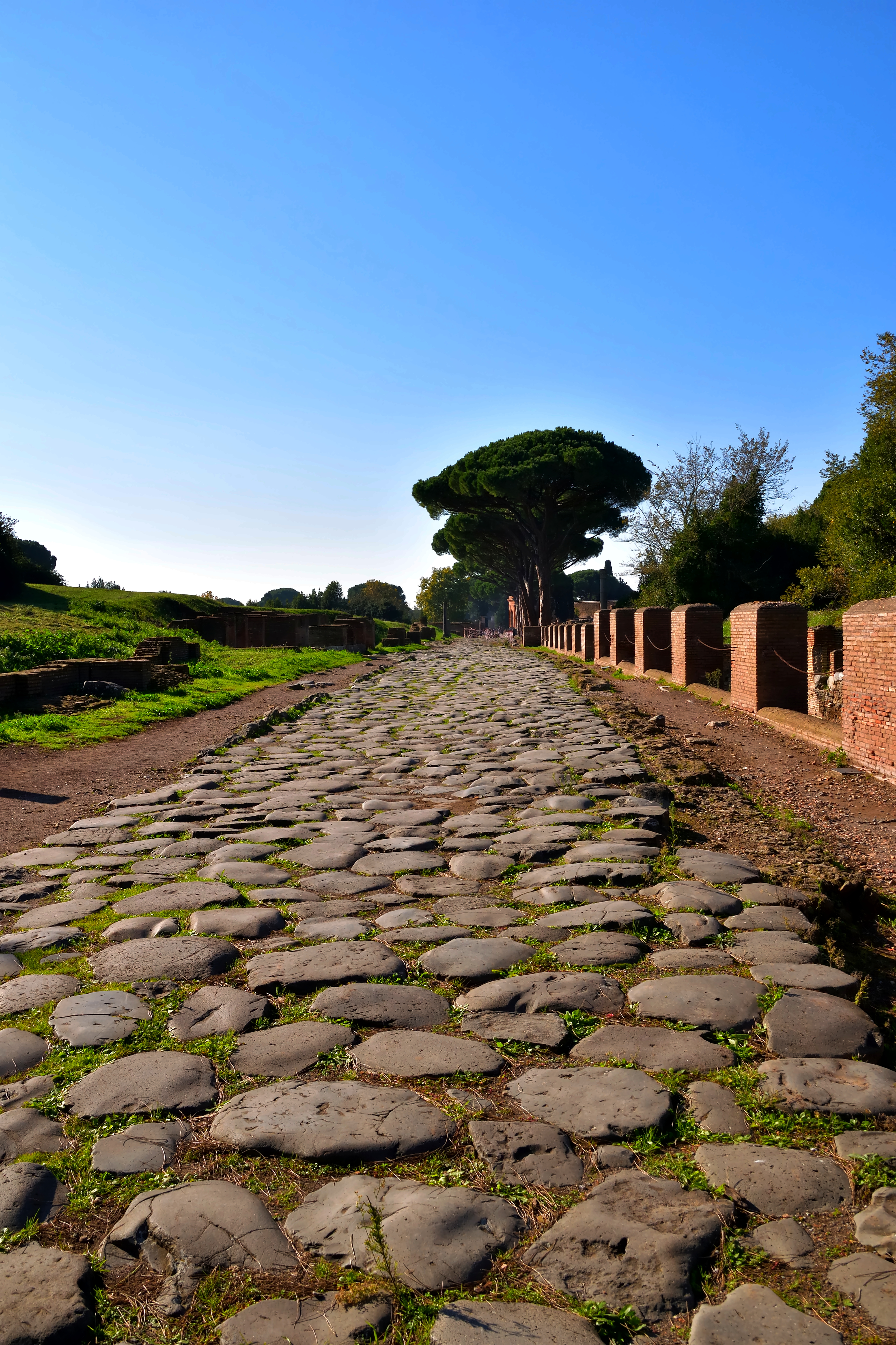 The main road Via Ostiense, which passes through the city of Ostia